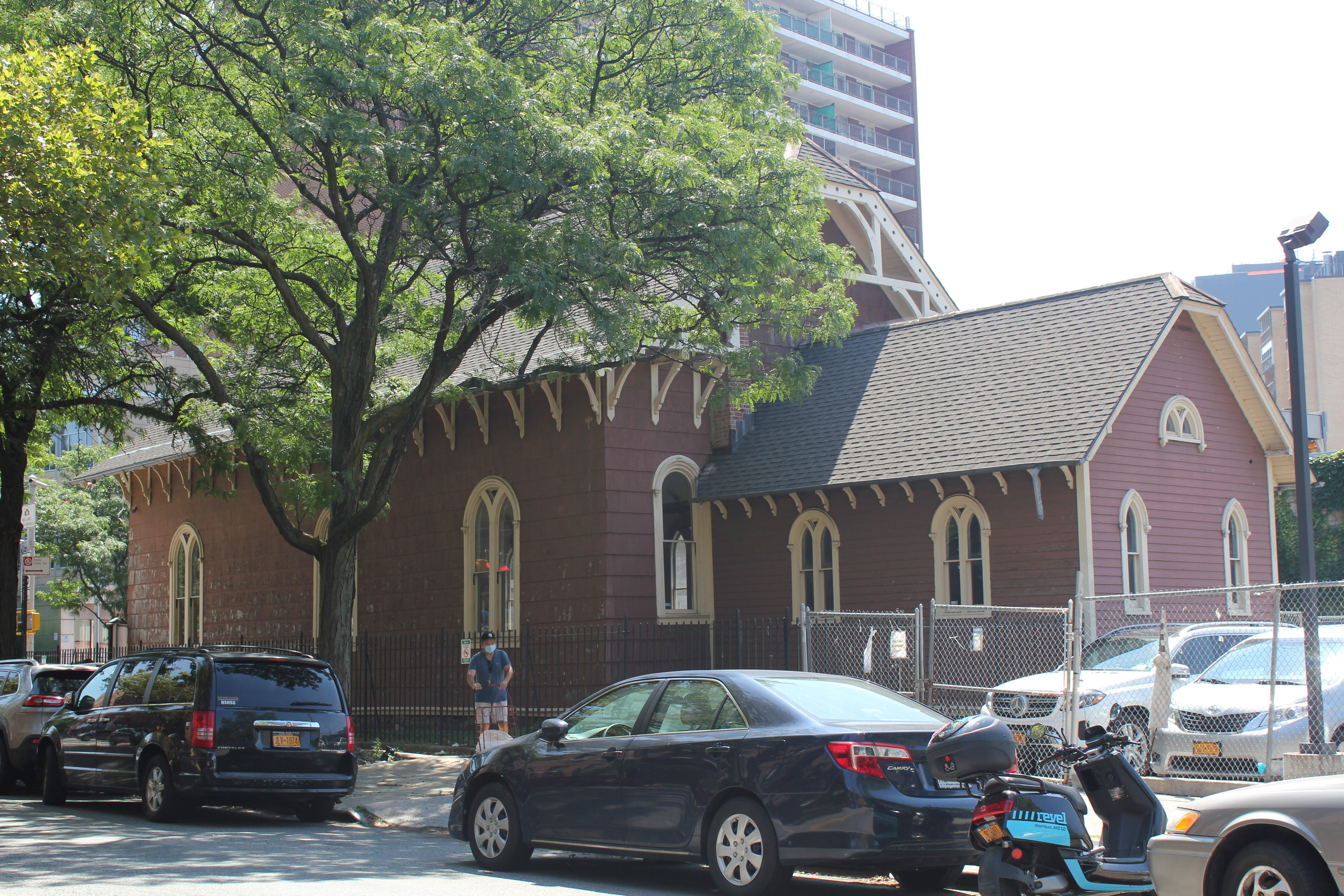 View of Old St. James Church, Elmhurst, Queens, NY